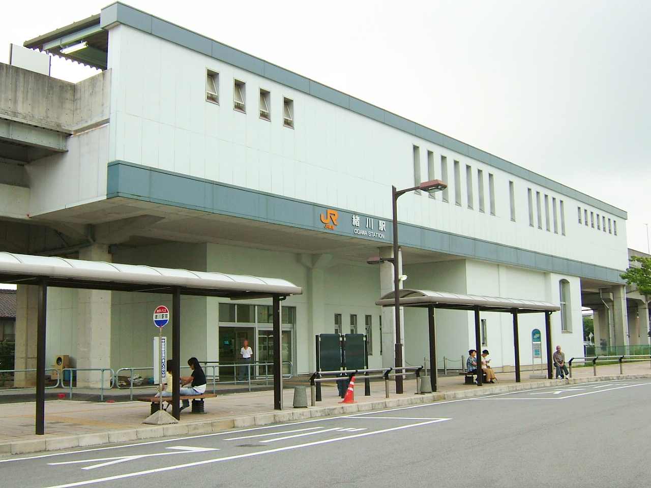 Ogawa Station on Taketoyo Line of JR Central